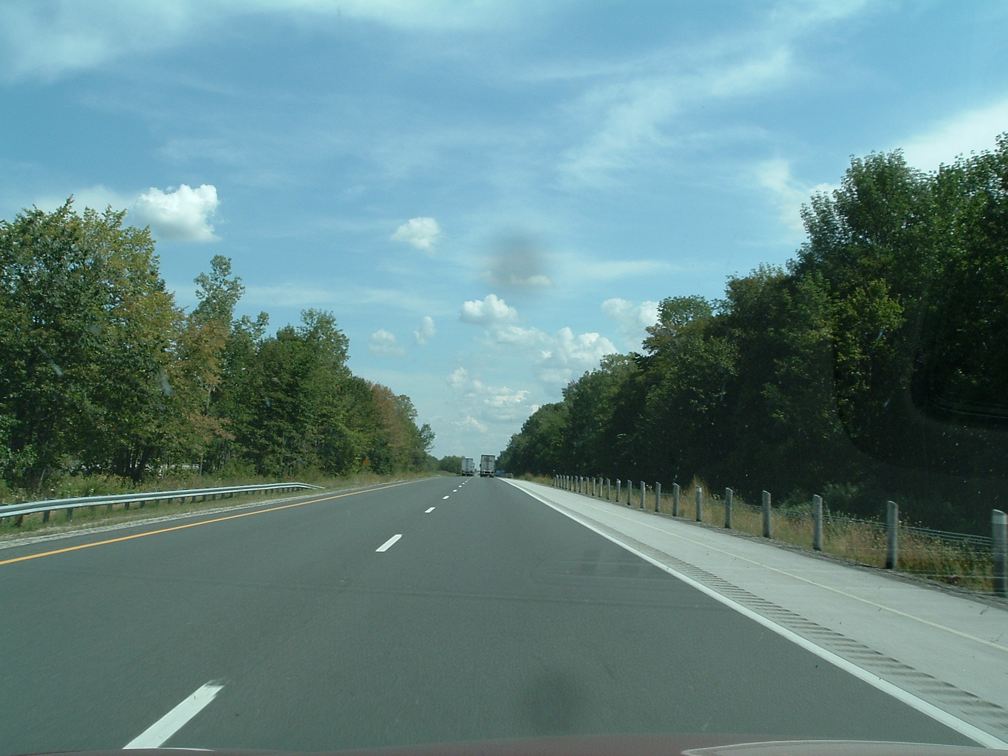 Highway 402 Eastbound in Ontario. Self made photo.